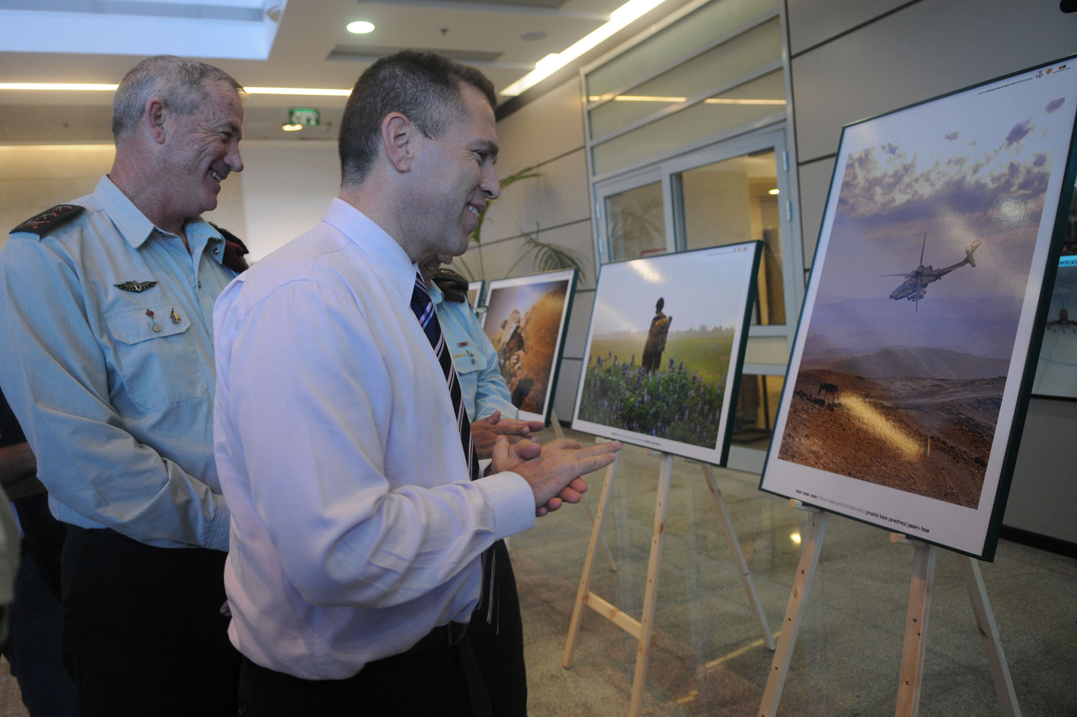 July 30, 2011 Thursday, July 28, an award giving ceremony for the national competition Shield of the Minister was held. Seen in the photo are the Chief of Staff, Lt. Gen. Benny Gantz and the Minister of Environment, Gilad Ardan. The first prize was given to the IDF photographer, Sergeant 1st Class Michael Shvedron for the photo "Combat Engineer in the Field". Photography: Sgt. Gal Ashuach, IDF Spokesperson's Unit